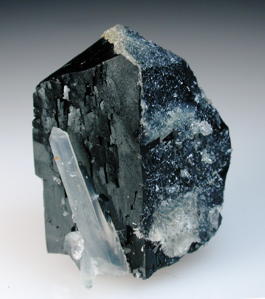 Ilvaite and Quartz (Size: 22 x 14 x 14 mm) Locality: South Mountain District, Owyhee County, Idaho, USA Original description: Ilvaite crystal with quartz, 22 x 14 x 14 mm., South Mountain, Idaho. Ex-Collection Milton Speckels (#1142). Label indicates he got it from Los Angeles dealers the Filers in 1957. Gift Charles Frey. K. Nash specimen (No. 392) & image.